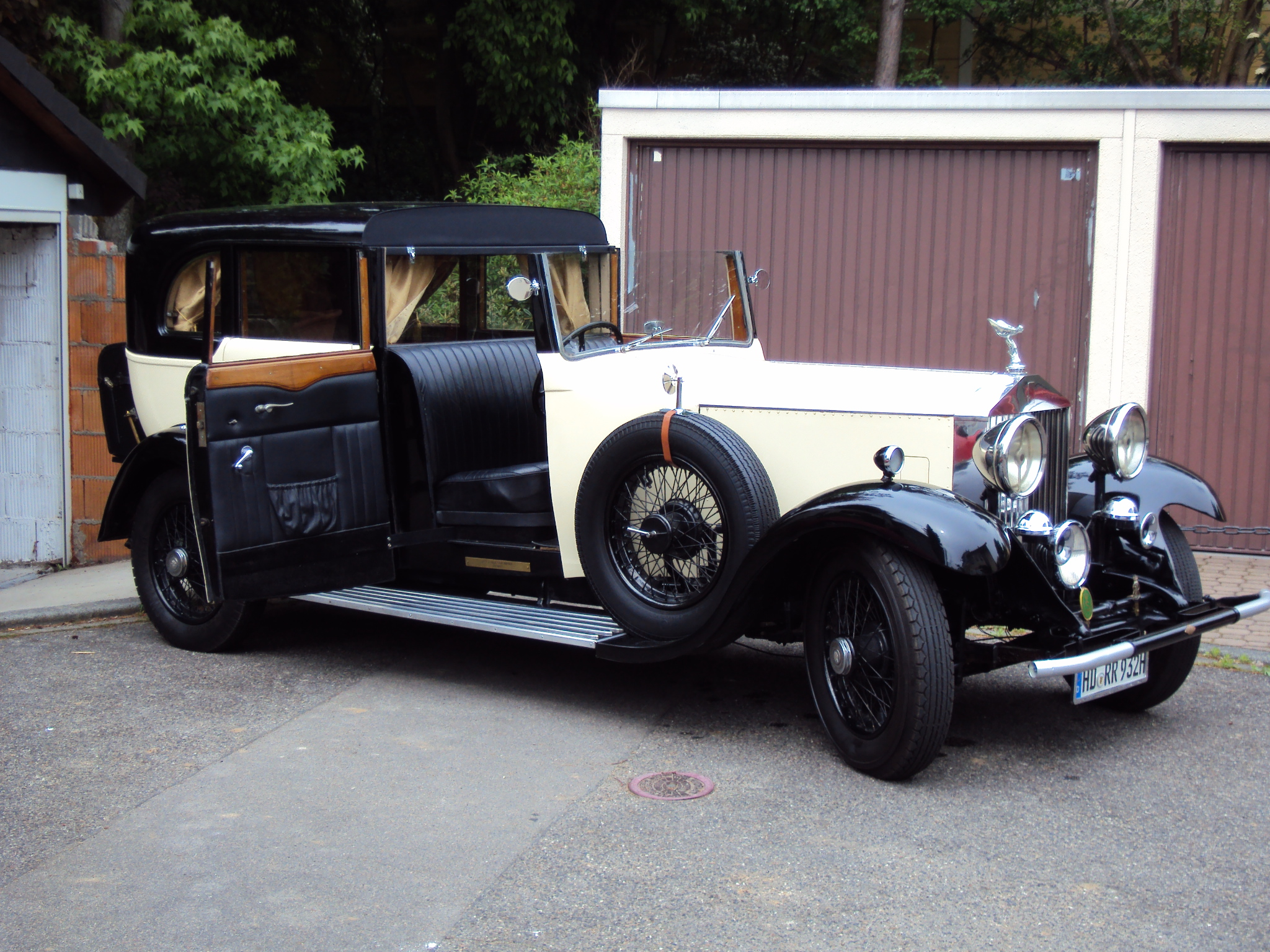 Rolls-Royce 20/25 HP- Lancefield Sports Open drive,1932